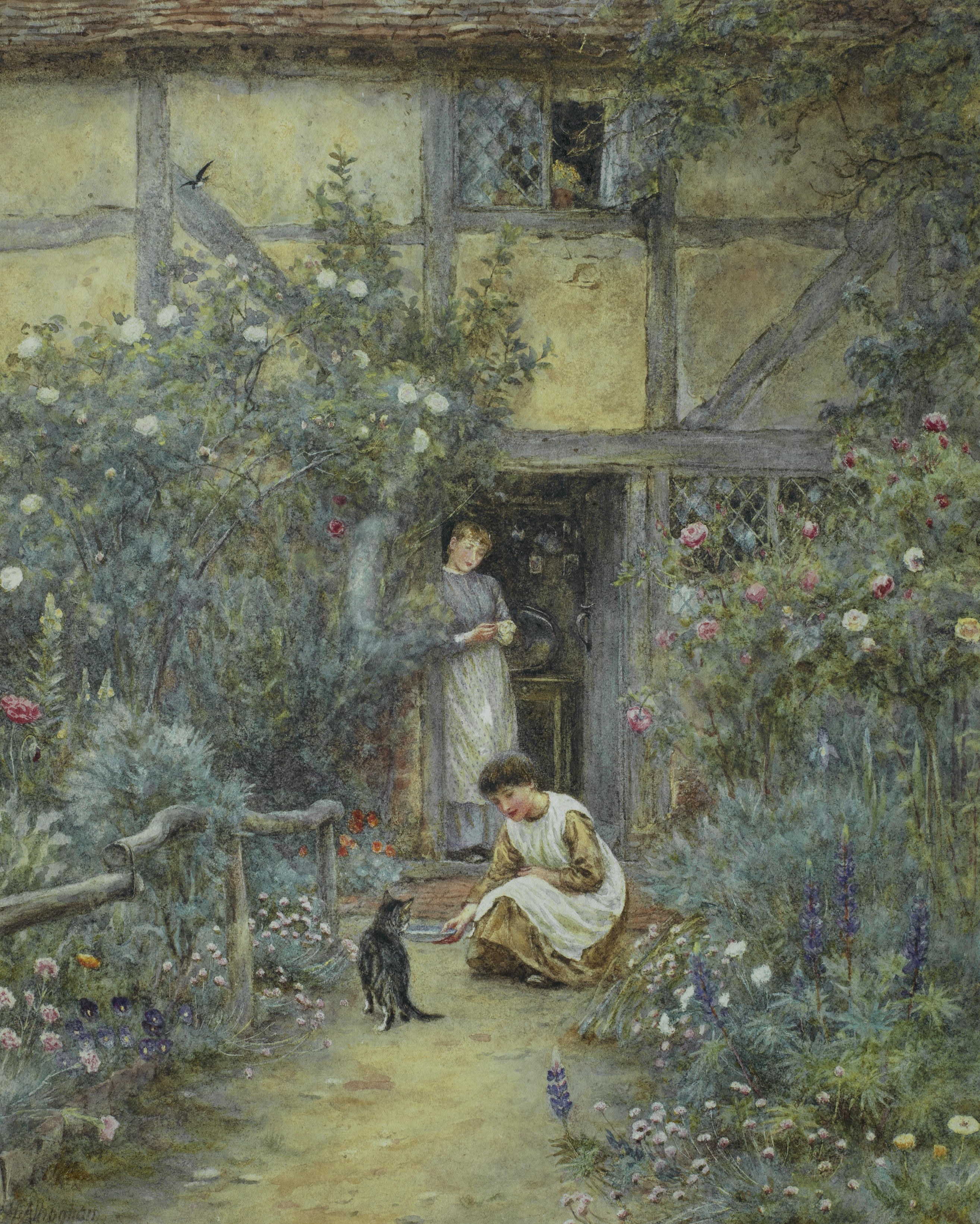 The saucer of milk. Signed 'H Allingham' (lower left). watercolour, 26 x 21 cm